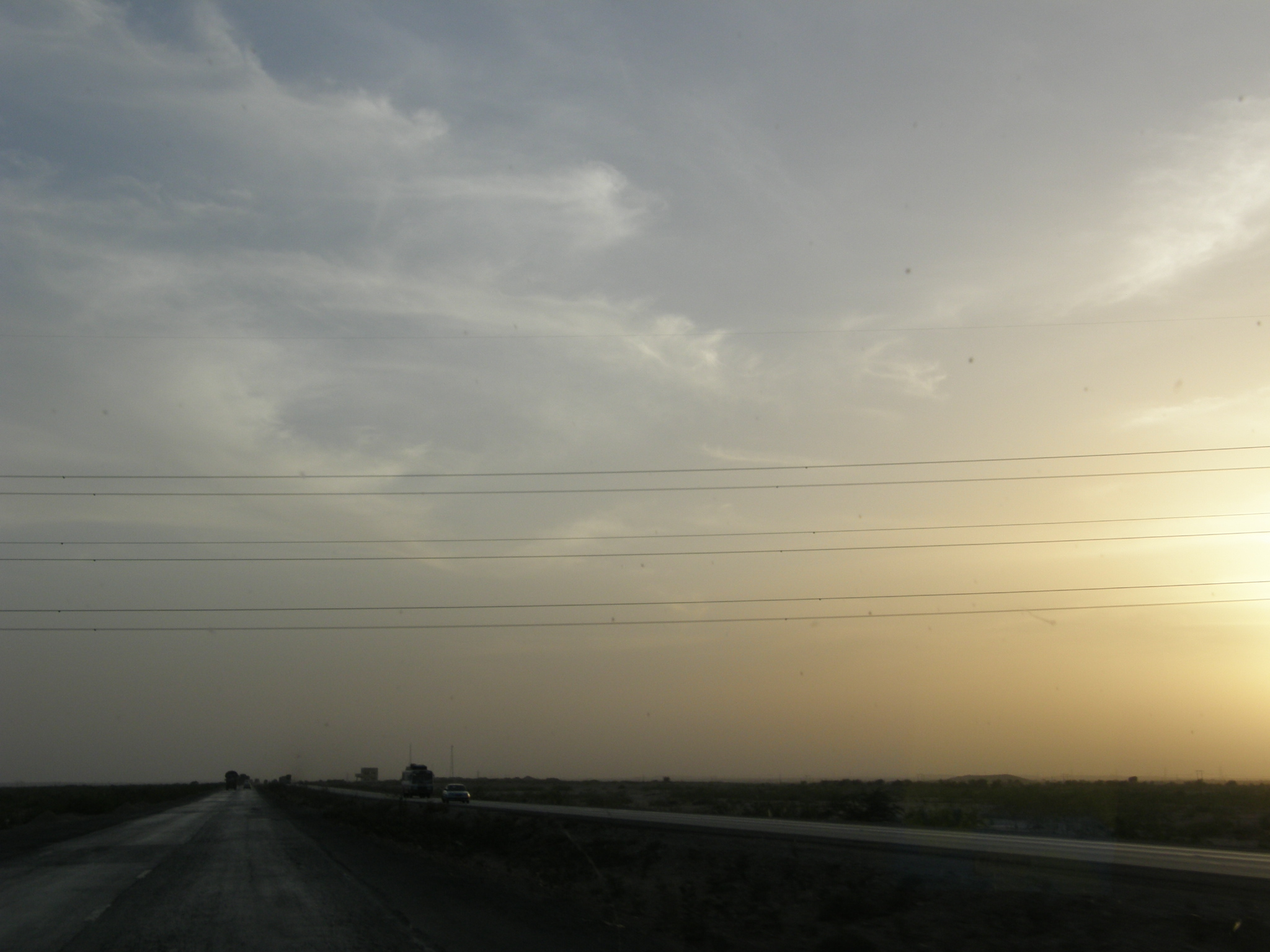 dusk on the highway out of Hyderabad